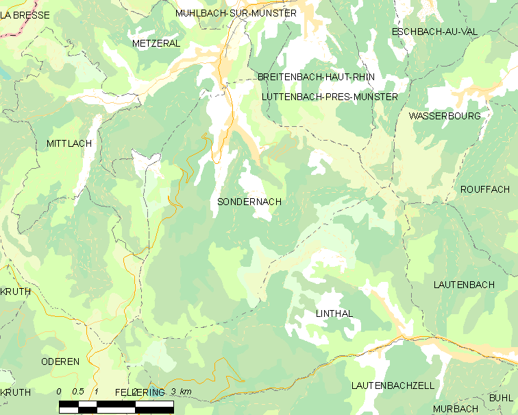 Map of French municipality